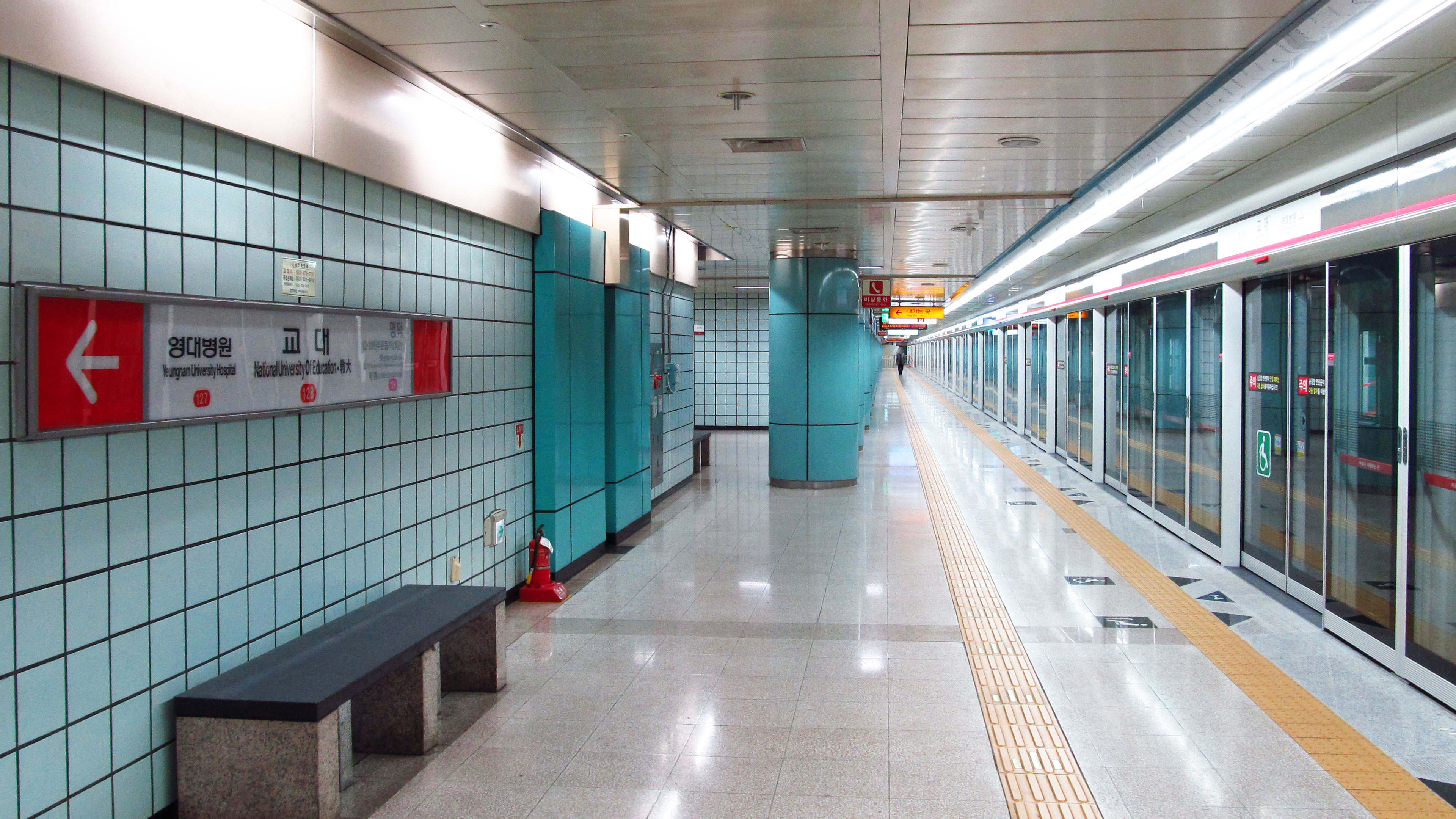 The platform of National University of Education Station on the Daegu Metro Line 1, for Yeungnam University Hospital, Seolhwa-Myeonggok